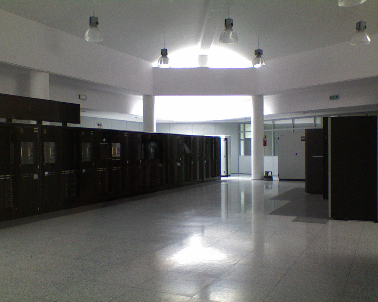 Galera - supercomputer in Gdańsk Technical University